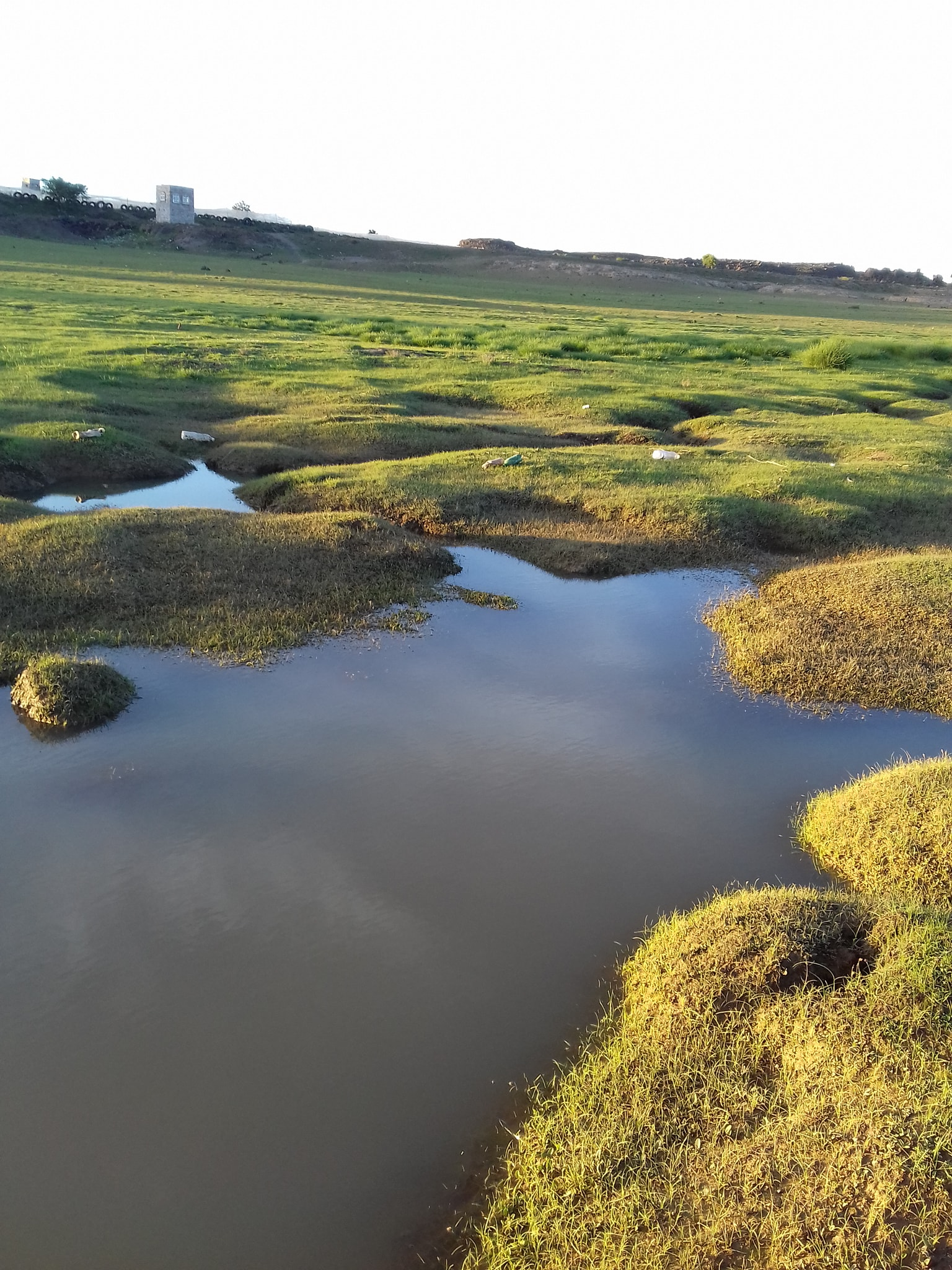 Gail al-Ribat, Jabal al-Dar, ʿAns, Dhamar, Yemen